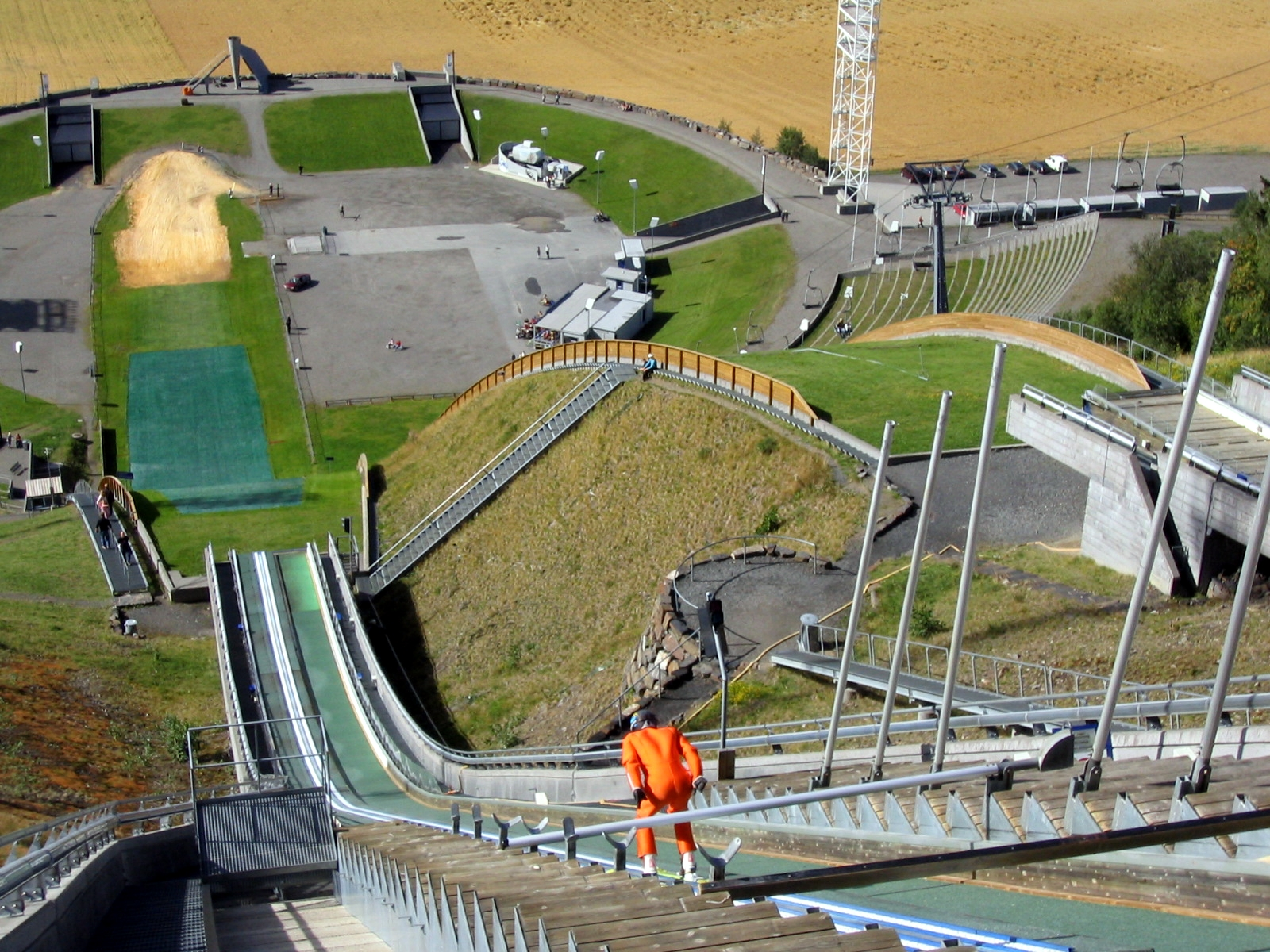 Lysgårdsbakken at Lillehammer